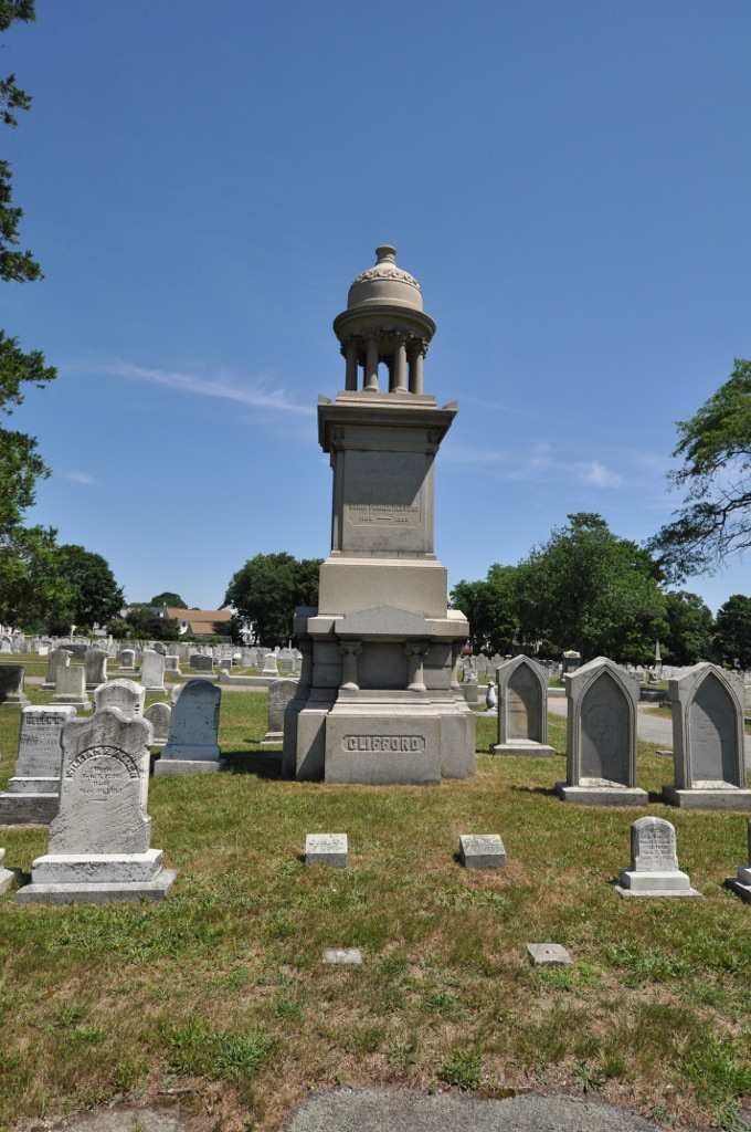 Grave marker of Massachusetts Governor John H. Clifford, Rural Cemetery and Friends Cemetery, New Bedford, Massachusetts.